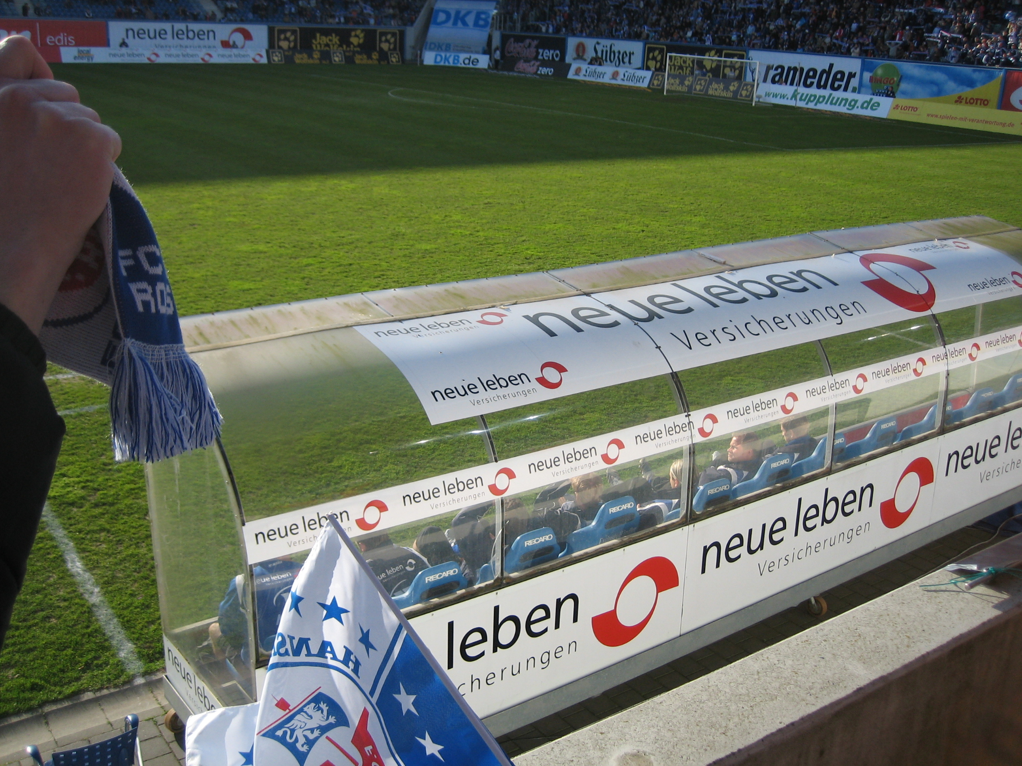 Ostseestadion. Substitutes' bench of FC Hansa.